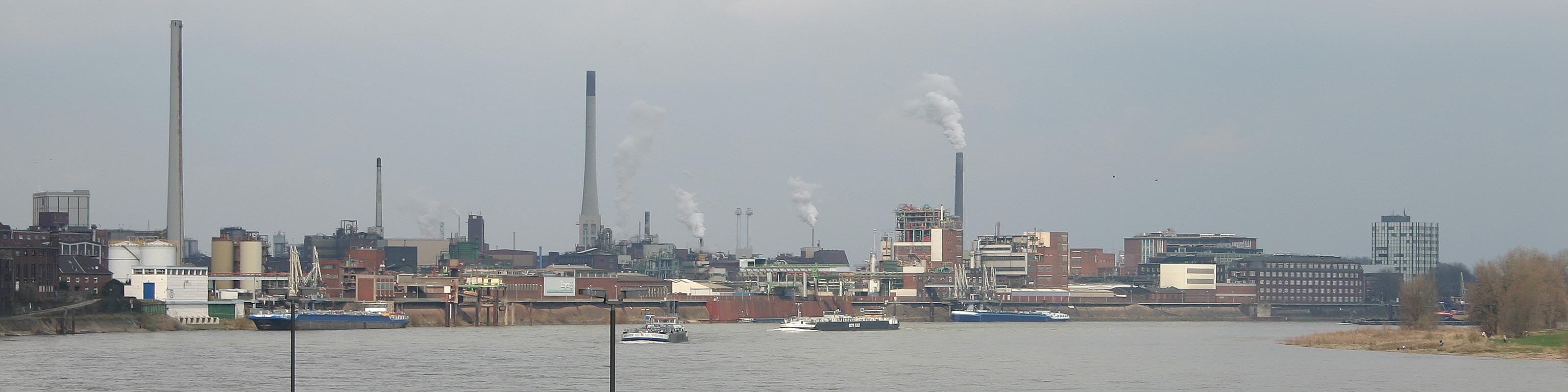 Industrial site of the Bayer AG in Krefeld-Uerdingen near the river Rhine, Germany Date: 28th April 2005